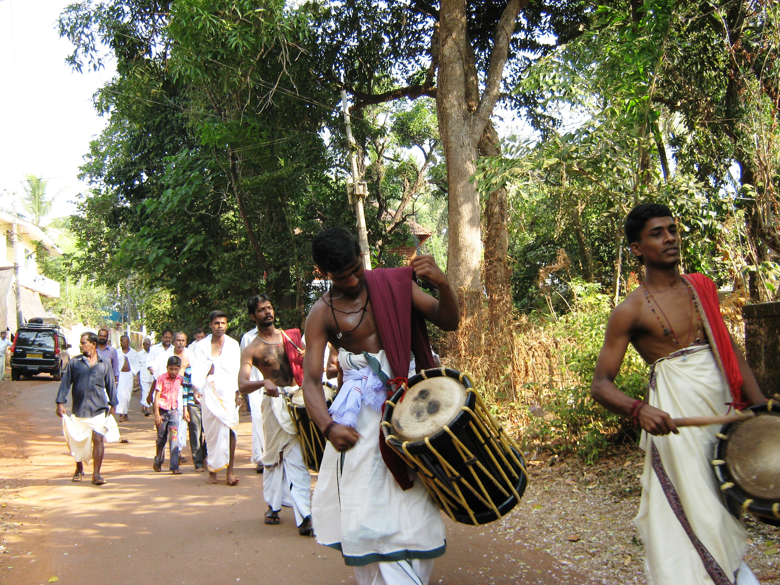 Ayyappa Temple, Chalad, Kannur, Kerala, India.